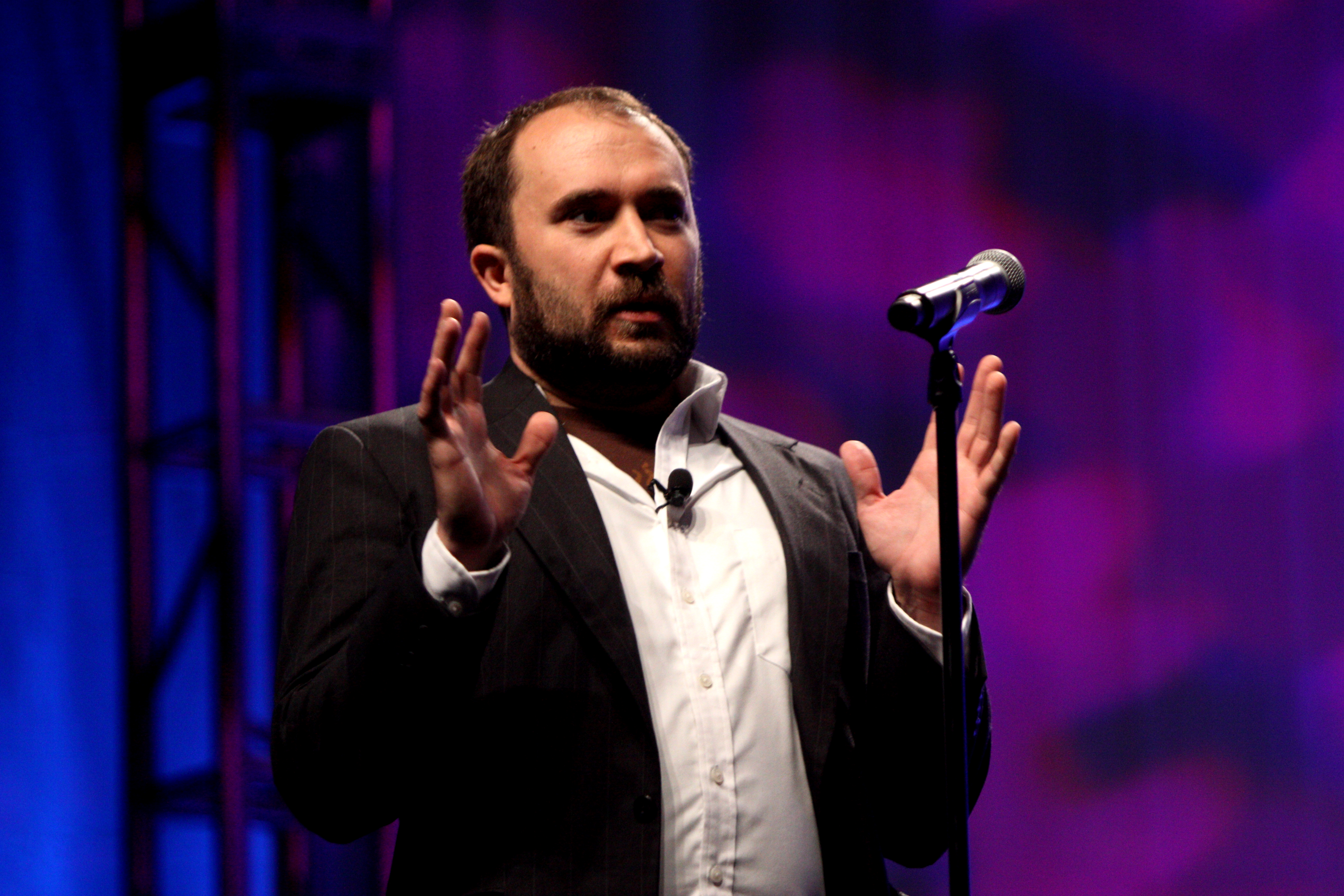 Craig Benzine speaking at VidCon 2012 at the Anaheim Convention Center in Anaheim, California.